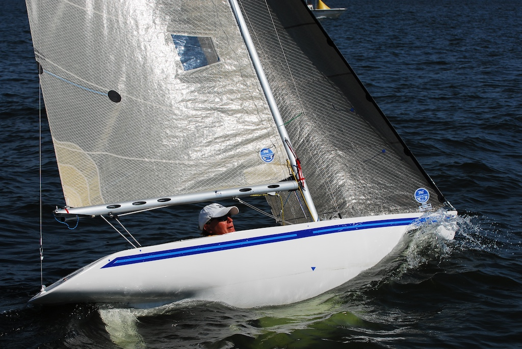 2.4 Metre racing during a 2008 championship